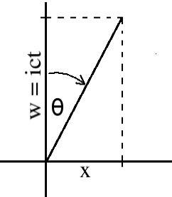 diagram showing angle related to "rapidity"